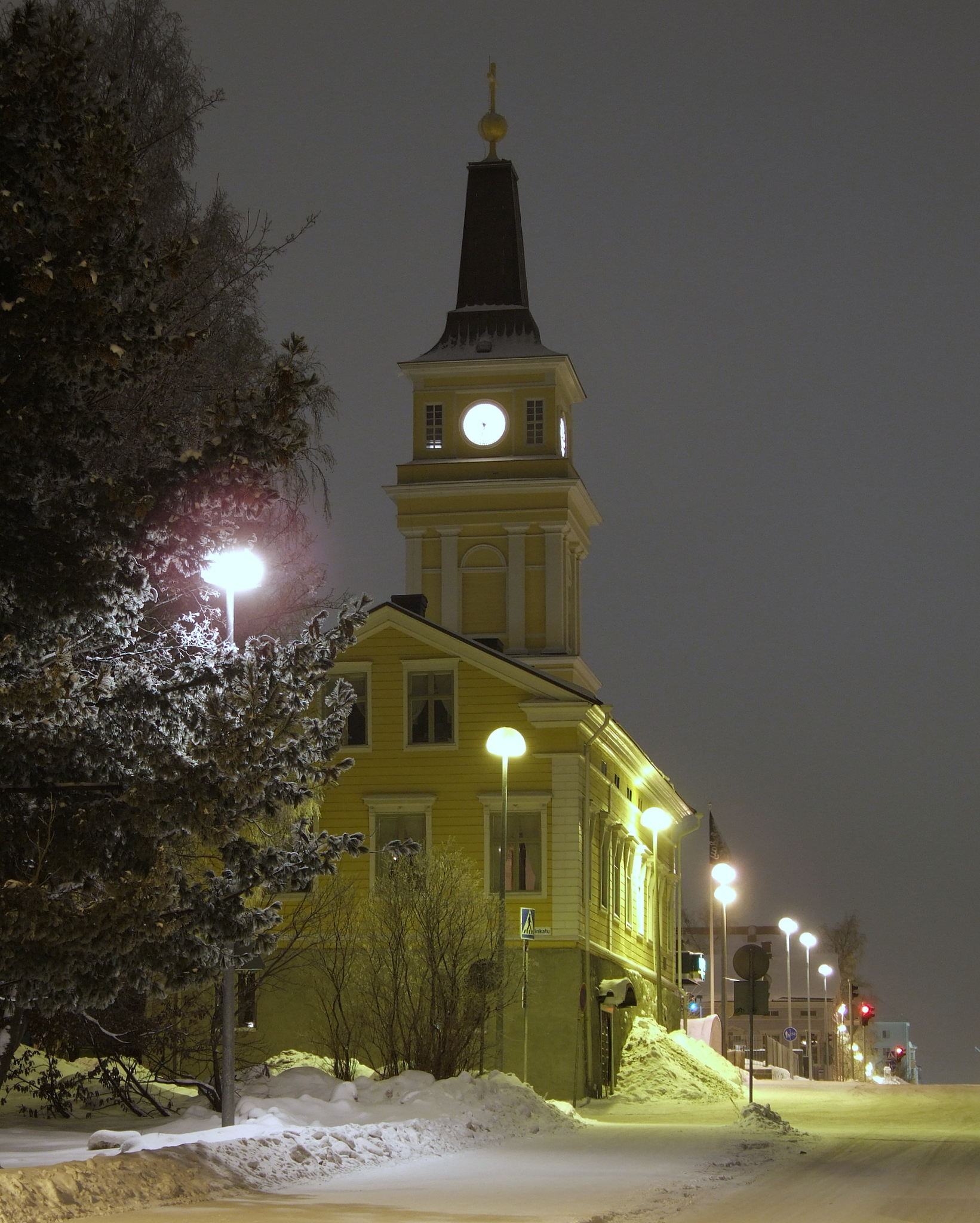 Oulu Cathedral in Oulu, Finland, by night